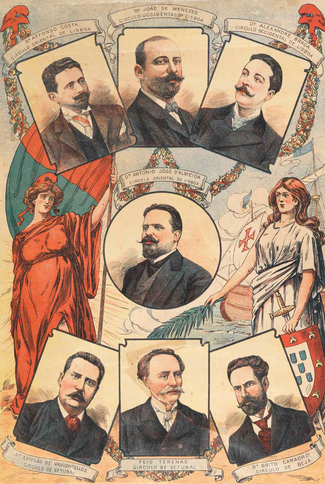 Postcard honouring the Members of Parliament from the Republican Party that were elected on the 1908 election. Depicted are the pictures of Afonso Costa, João de Menezes, Alexandre Braga, António José de Almeida, Estêvão de Vasconcelos, Feio Terenas e Brito Camacho, with an indication of their respective constituency. The inscription reads: «Homage to the Members of Parliament elected by the People on 5 April 1908».